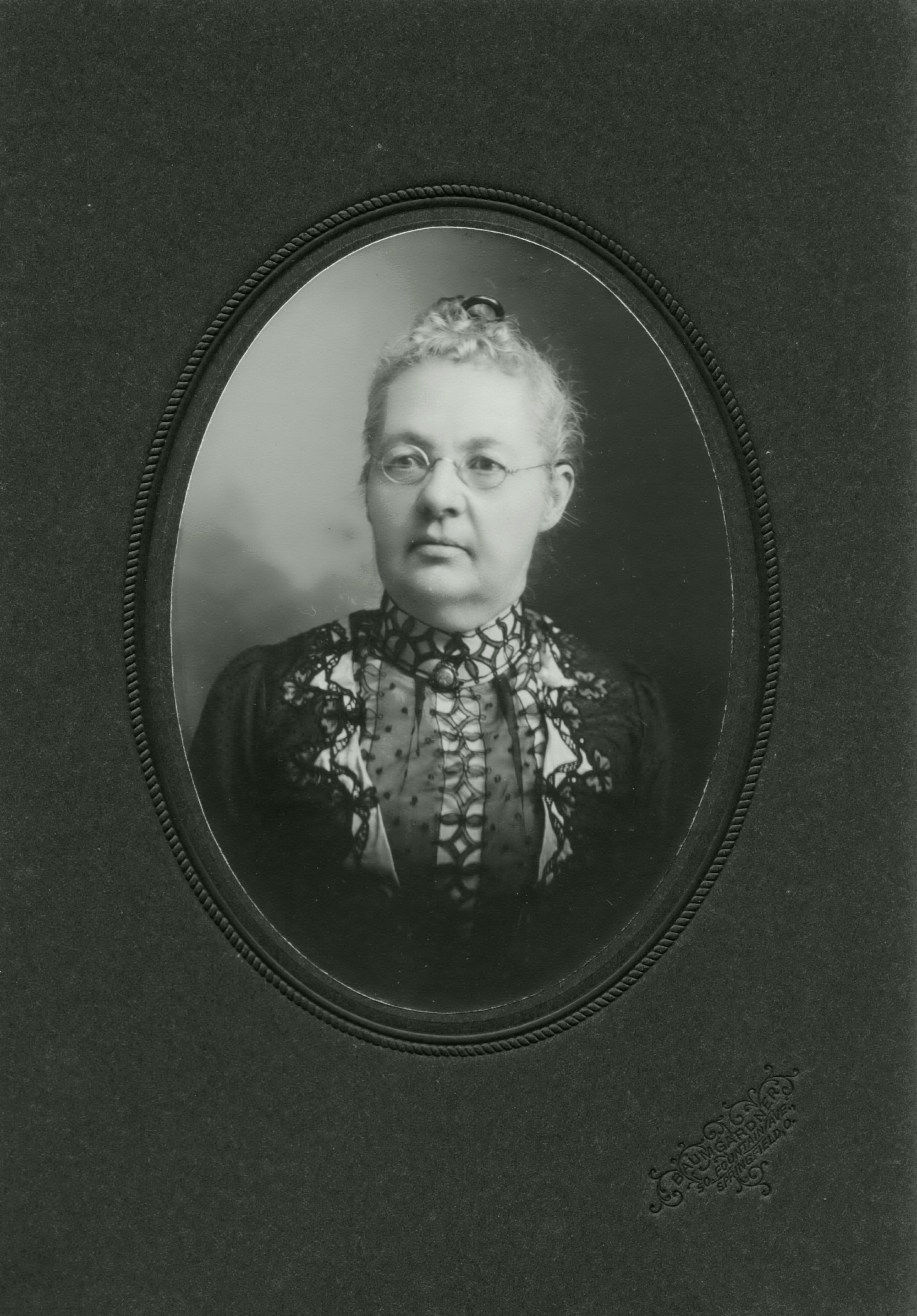 More than 100 year old photo